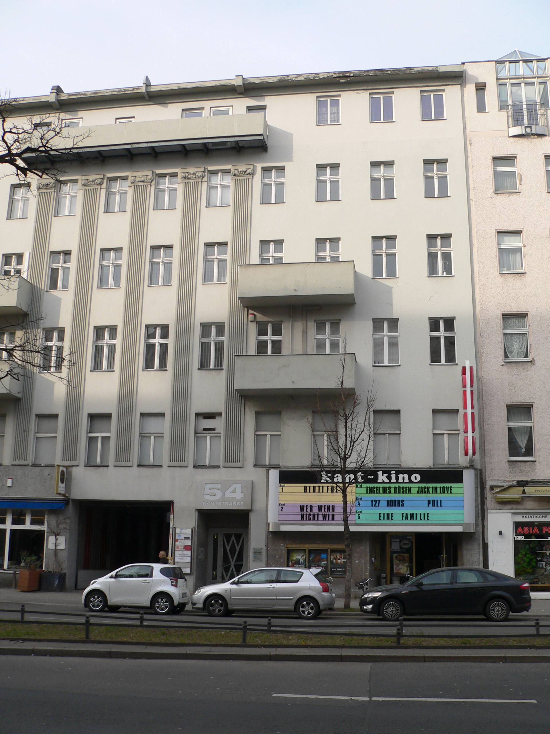 Berlin-Charlottenburg Kantstraße Kant-Kino